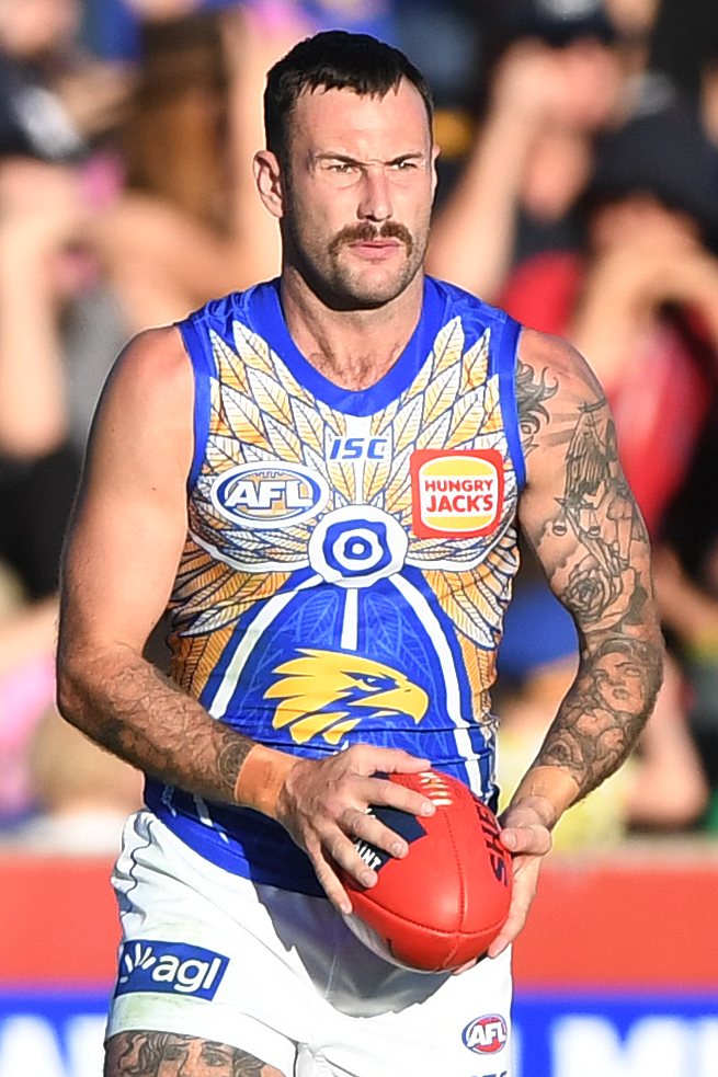 Chris Masten of West Coast during the 2019 AFL round 18 match between Melbourne and West Coast at Traeger Park on Sunday, 21 July 2019 in Alice Springs, Northern Territory.